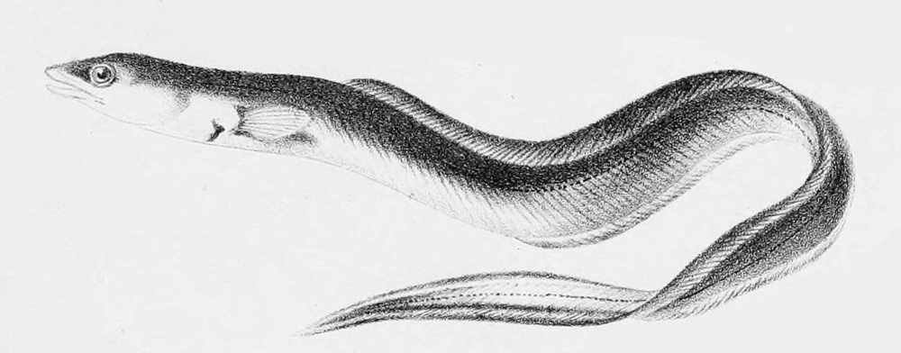 Conger conger